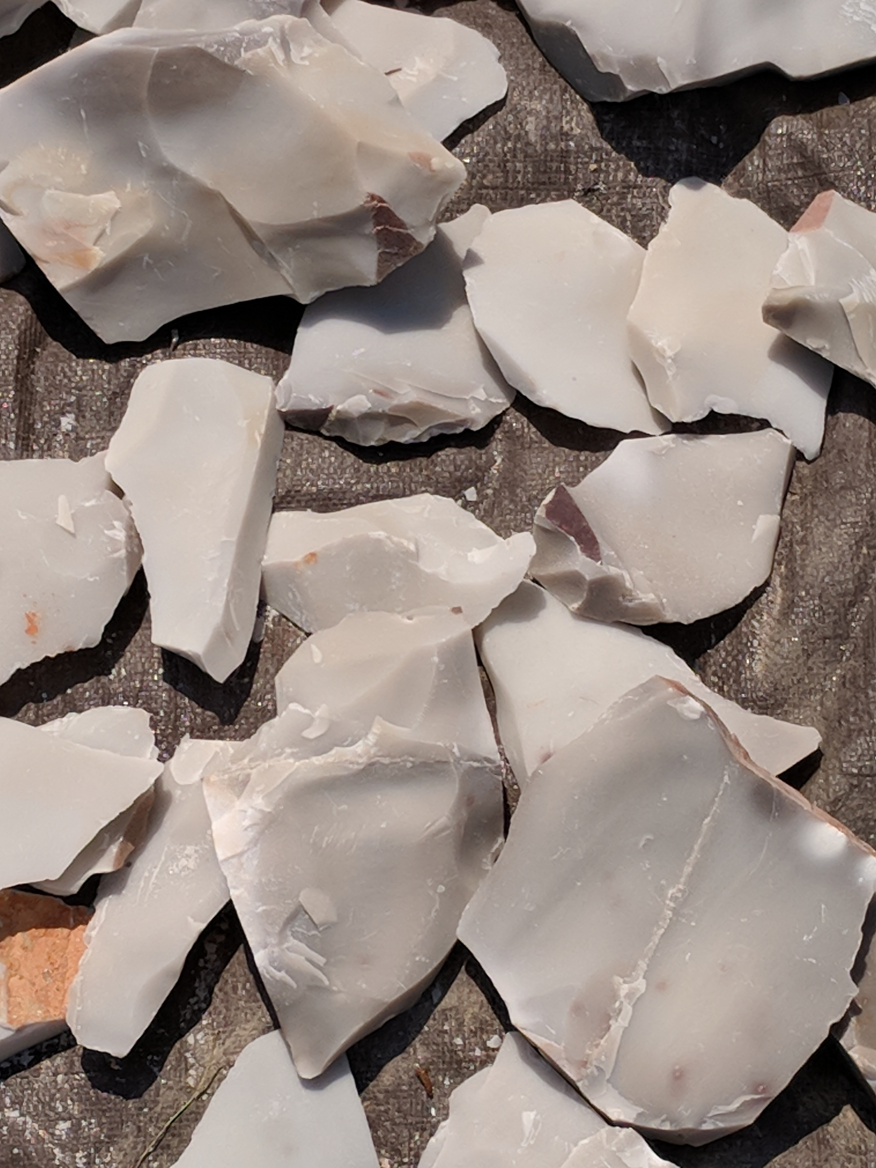 The Genesee Valley Flint Knappers Association Stone Tool Craftsman Show 2018